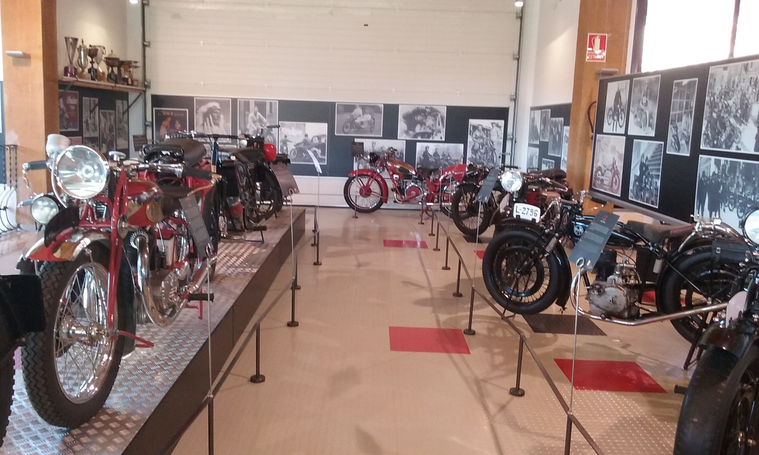 Inside the Museu de la Moto de Bassella